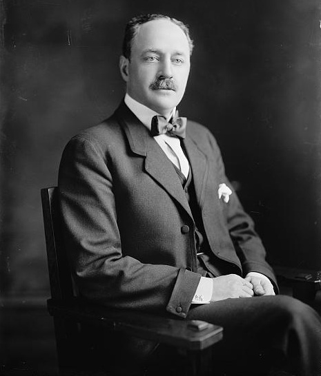 Charles G. Bennett, Congressman from New York